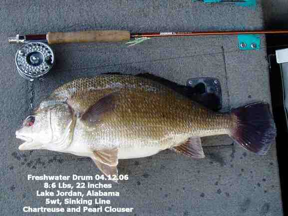 Typical Freshwater Drum Lake Jordan Alabama (Released)